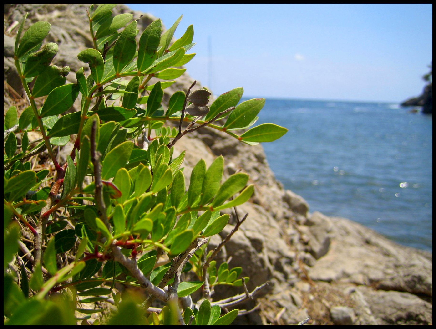 nature of eivissa